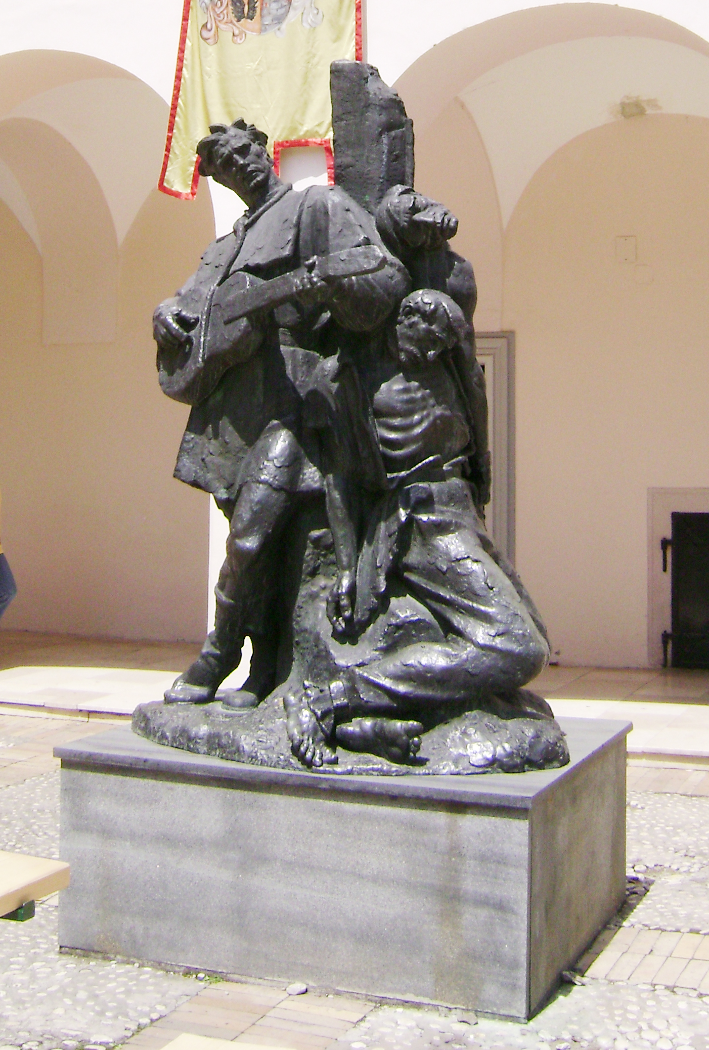 Petrica Kerempuh: sculpture of Vanja Radaus